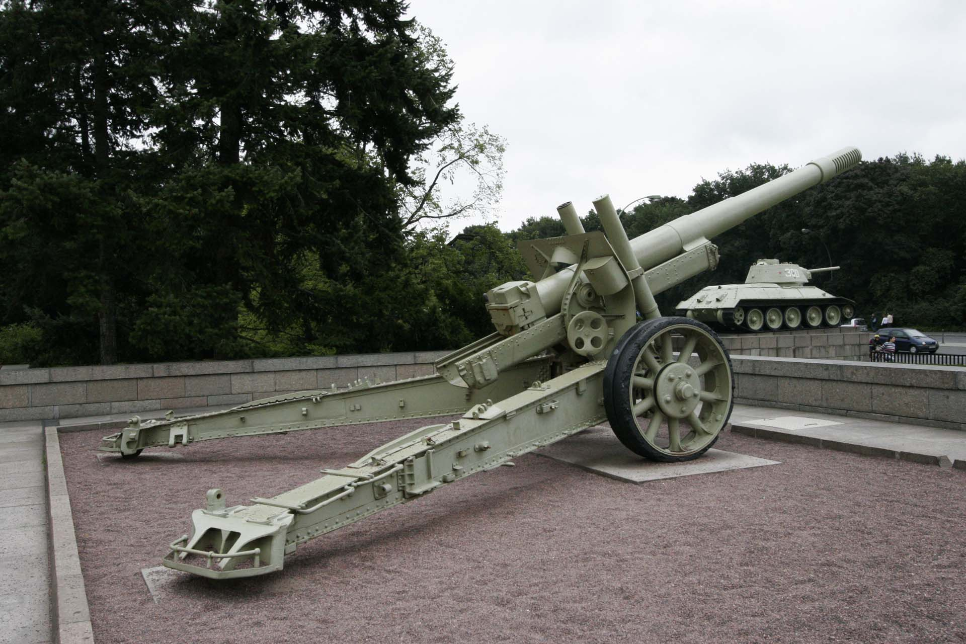 photo by baku13, 14 Aug 2005 Soviet 152 mm gun-howitzer ML-20 on display at the Soviet War Memorial,Berlin,Germany.